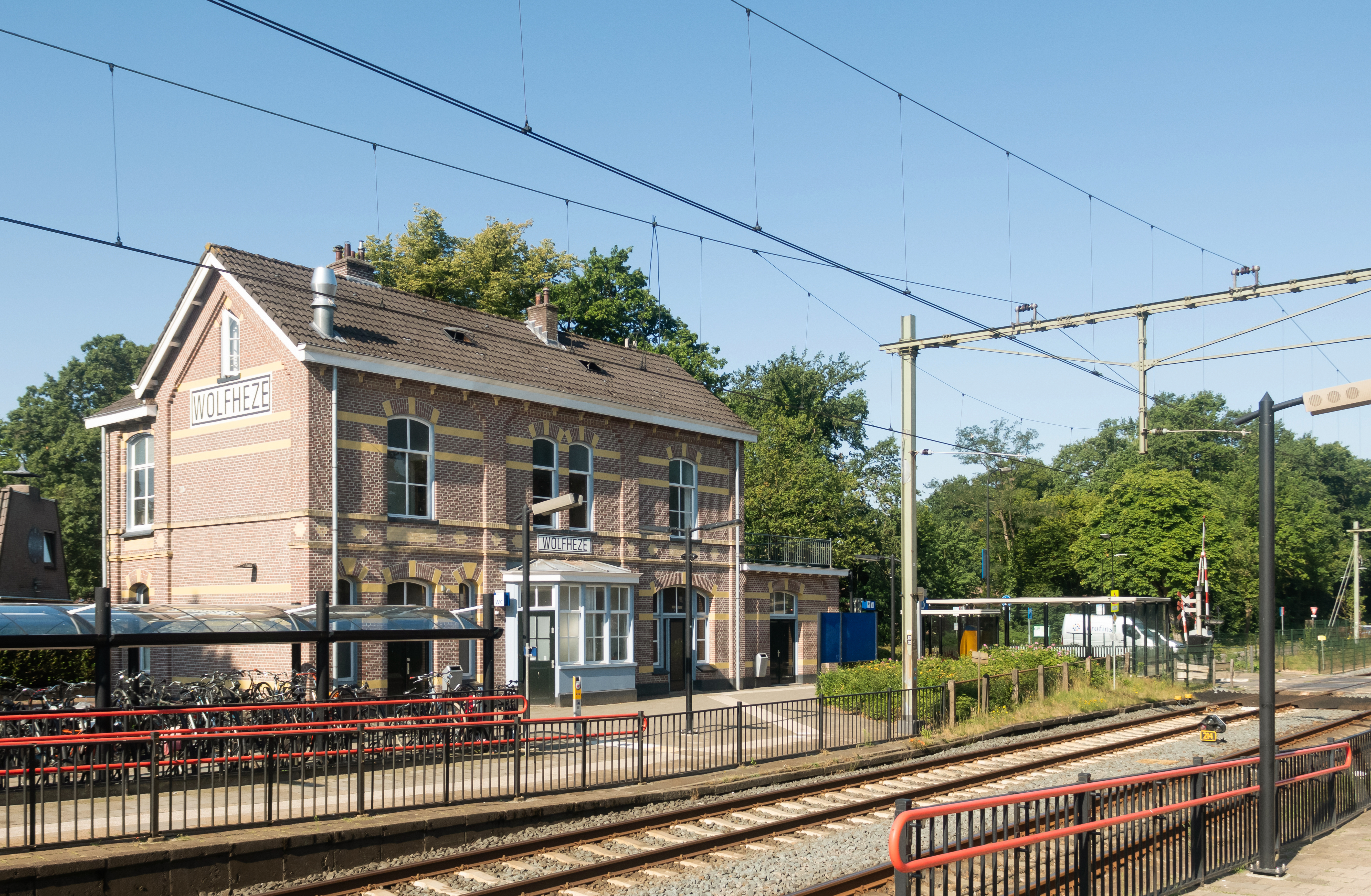 Wolfheze, the railway station